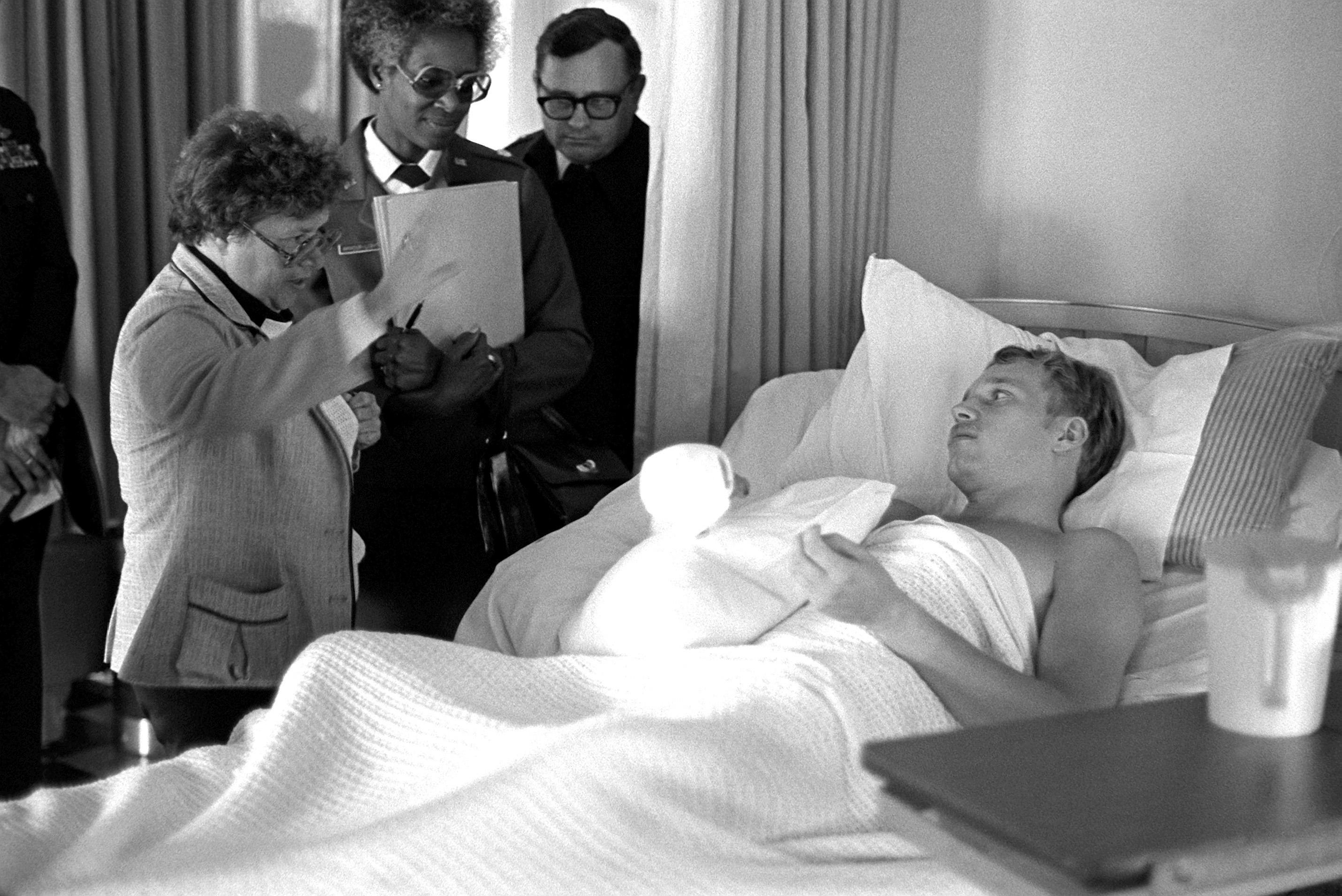 U.S. Congresswoman Barbara Mikulski, D-Md., visits with a patient at the U.S. Air Force hospital as her escorts look on.